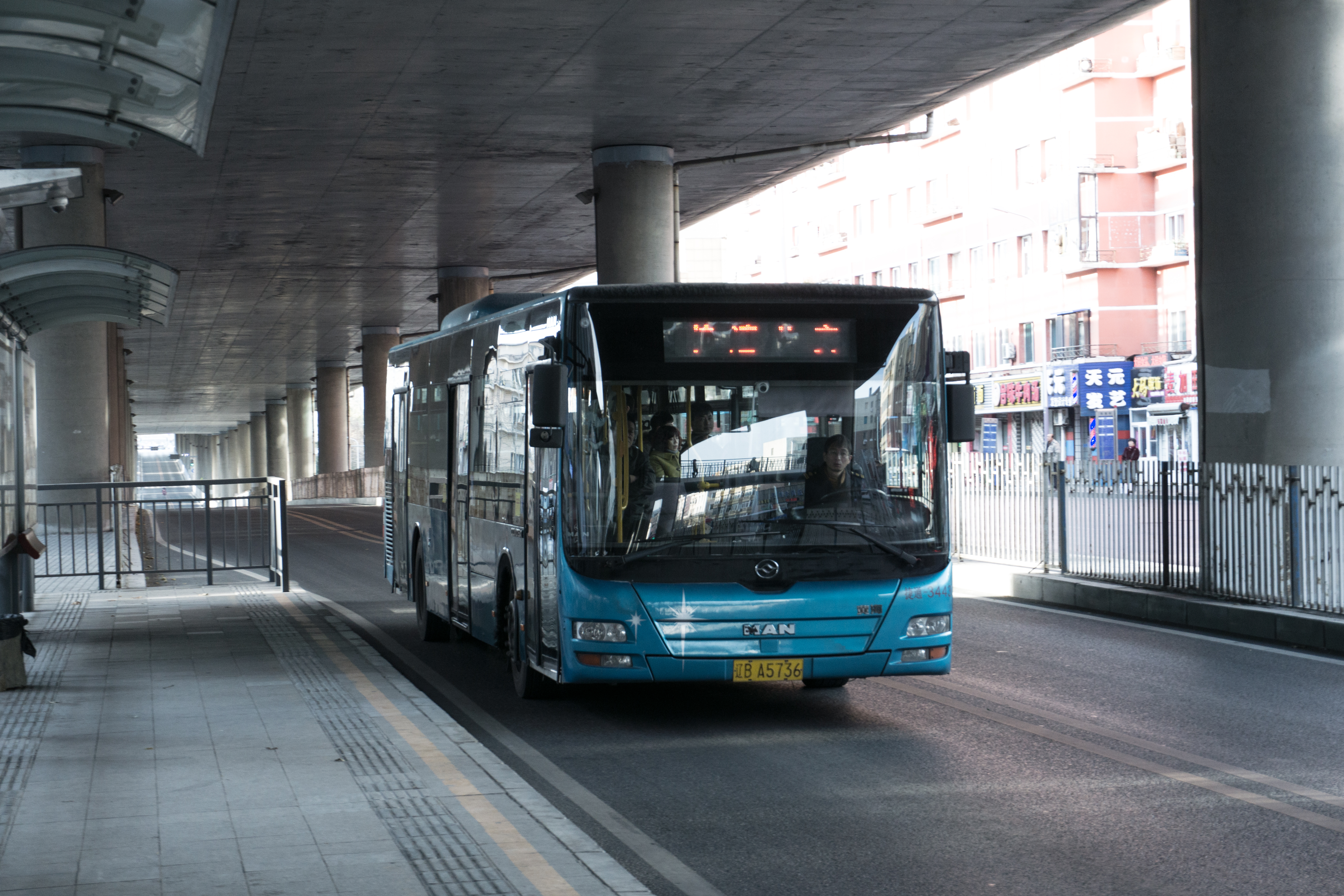 DLBUS-6127S01